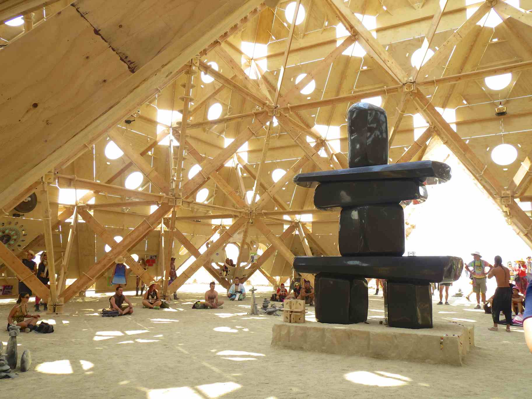 "The Temple of Whollyness offers space to reflect upon how to become more whole. It’s epic central pyramid – an 87’x87’ base and 64’ tall – is designed with sacred mathematical proportions and constructed using innovative building techniques. Unbelievably, this majestic sanctuary is crafted completely out of geometric interlocking wood pieces that fit together without the use of nails, glue or metal fasteners. This soulful destination incorporates a symbolic visual history of the mysteries of sacred places, artifacts and monuments found in nature, religion, and cultures. The Temple’s name is derived from the concept that spirituality is a balance between three states of mind – to be holy, holey or wholly present. It is a safe haven to wholeheartedly reflect upon how to live in divine power rather than letting polarizing beliefs and the inevitable chasms – the holes in our hearts – lead us astray from joy." - from